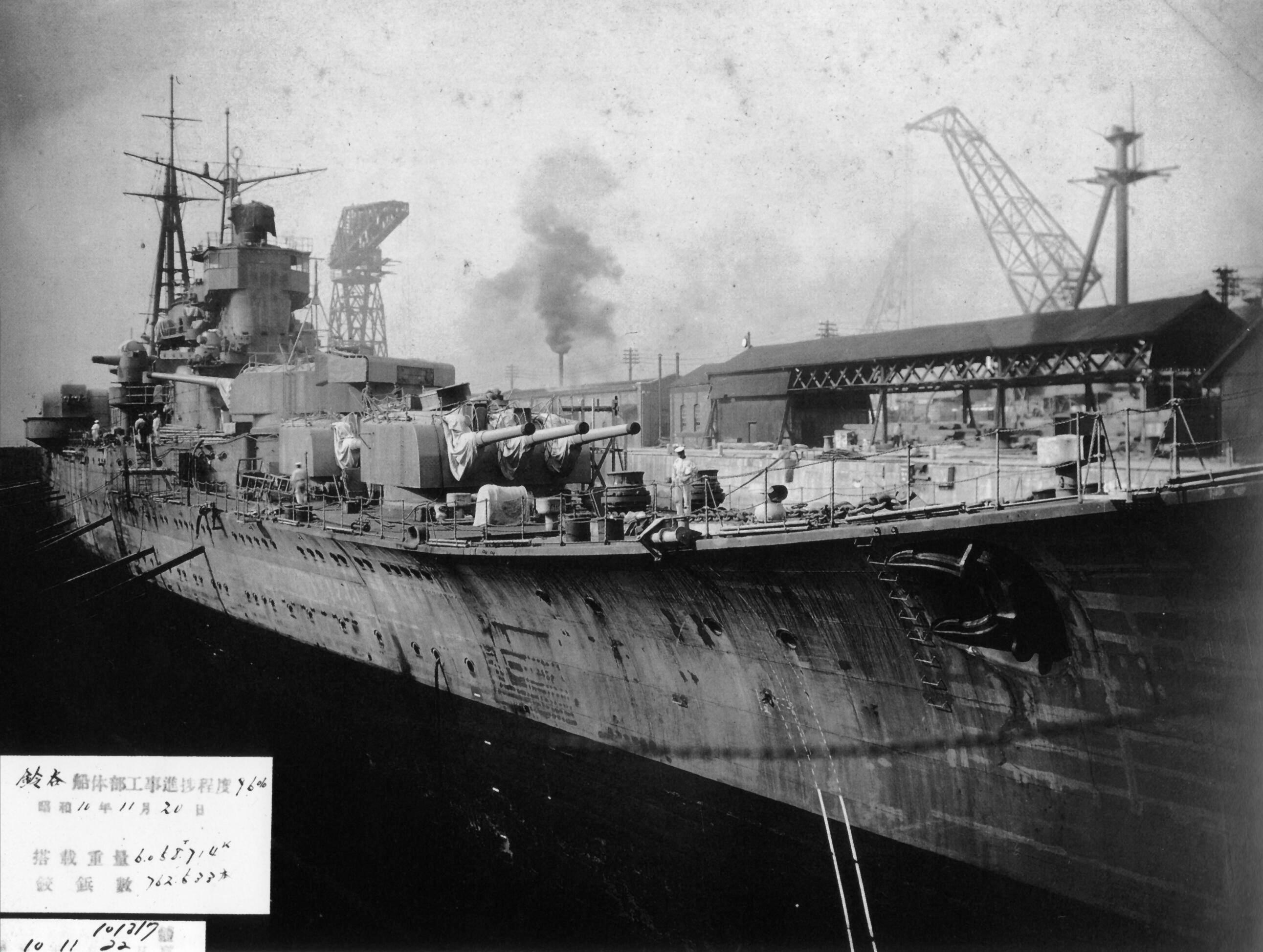 Japanese heavy cruiser Suzuya in drydock № 4 of Yokosuka Navy Yard.